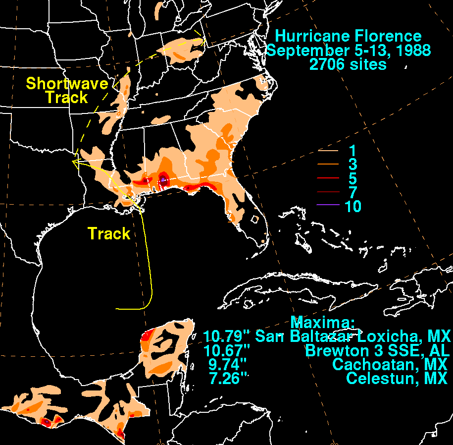 Storm total rainfall map of Hurricane Florence during September 1988.